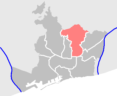 Locator maps of districts/ neighbourhoods in Barcelona: Map - Barcelona - Horta-Guinardo.PNG